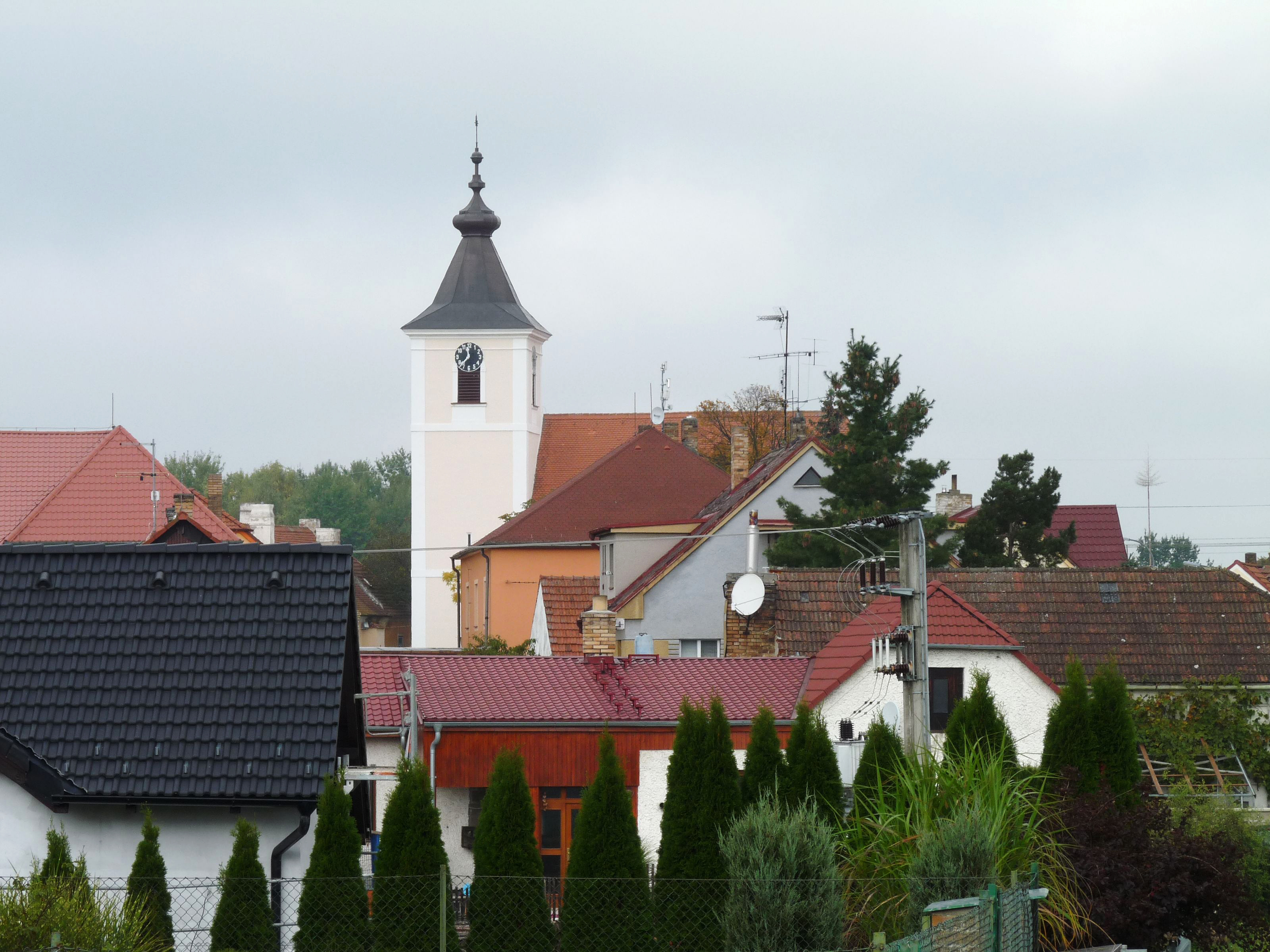 Church of the Annunciation of the Virgin Mary in the village of Zahájí, České Budějovice District, South Bohemian Region, Czech Republic.